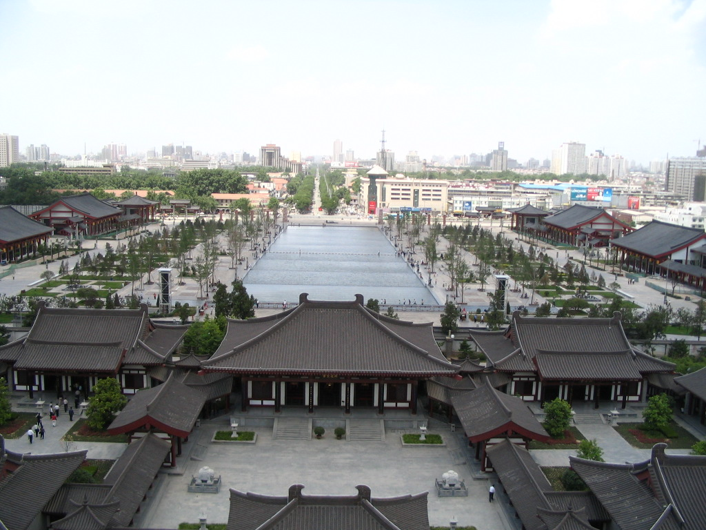 Description（描述）: the square north to Dayan Tower,Xi'an,China,pictured in Dayan Tower. 中国西安大雁塔北广场，在大雁塔上拍摄 Source（来源）: pictured by myself 自己拍摄 Athor（作者）: Pubuhan Links（链接到）：大雁塔北广场